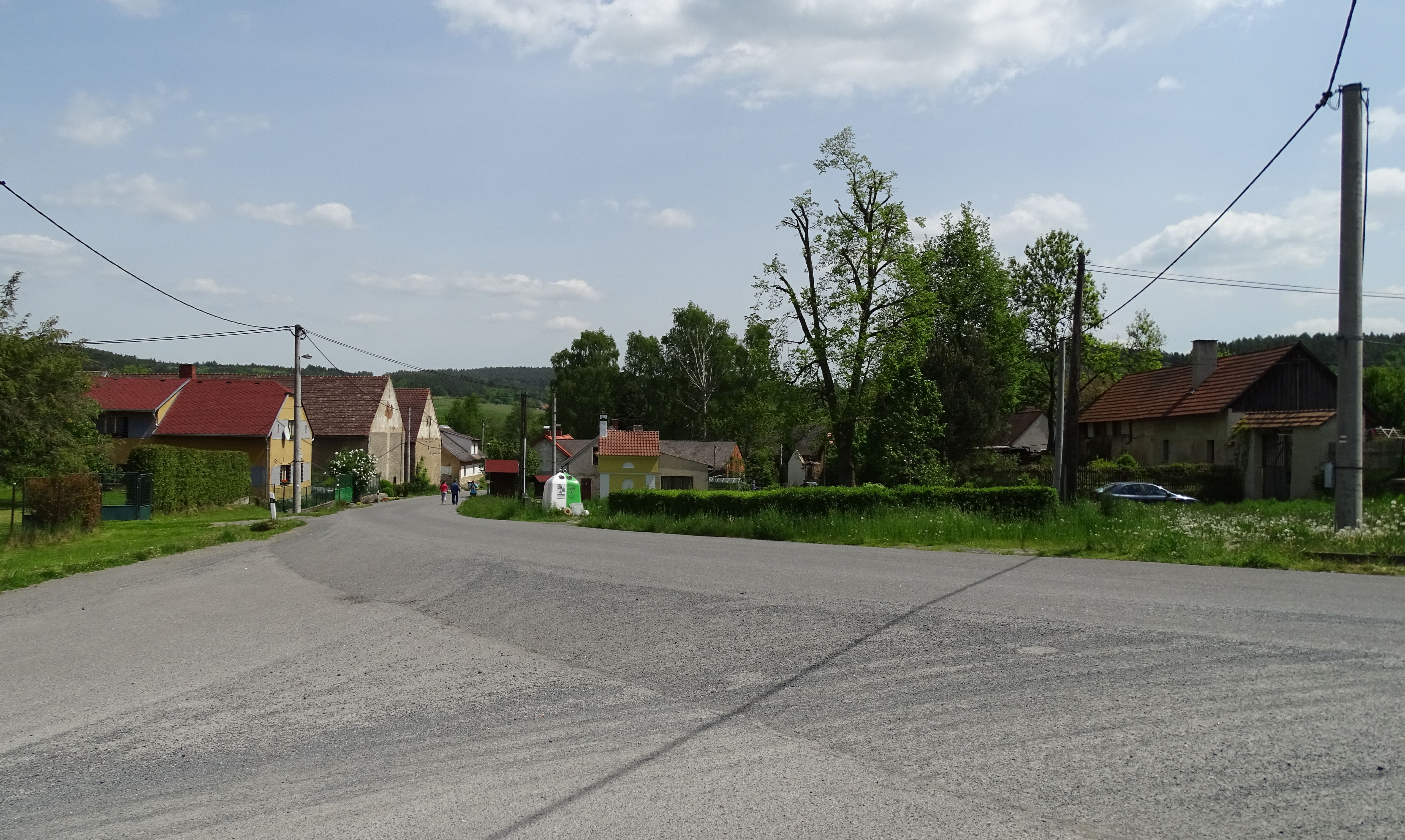 Křečovice-Strážovice, Benešov District, Central Bohemian Region, Czech Republic. Road III/10517, a common.